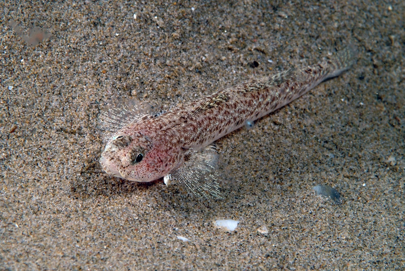 Photographed in Tuscany sea (Italy). Photo by Stefano Guerrieri.